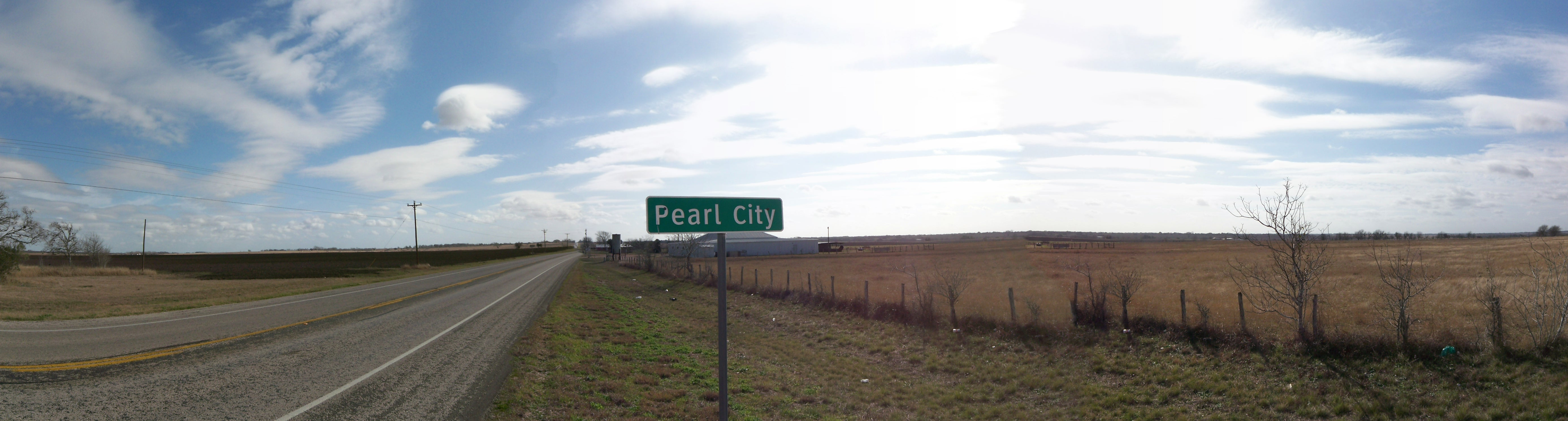 Panoramic photo of Pearl City, Texas.